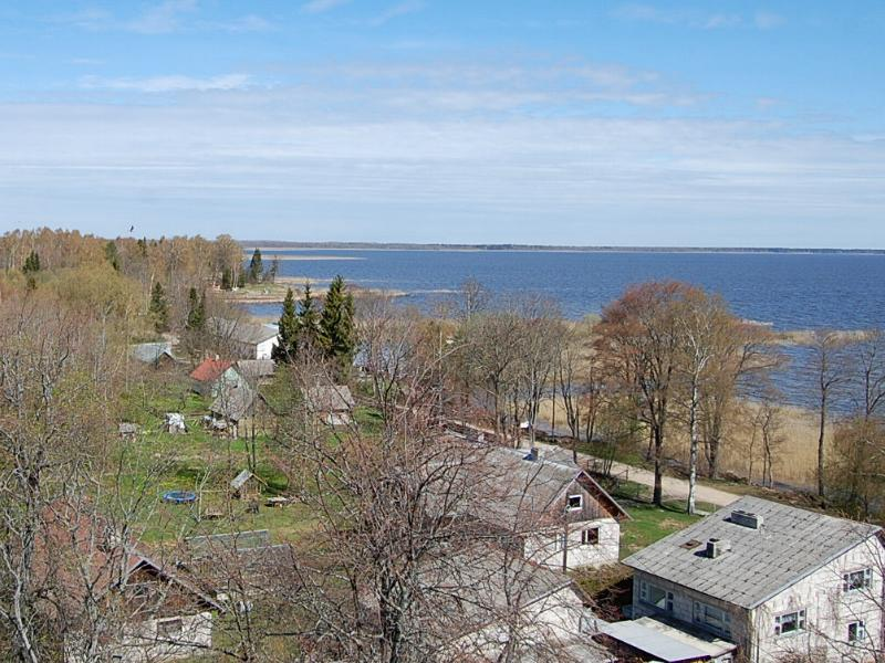 Estonia, county Viljandi, parish Viiratsi, village Valma. North-western coast of lake Võrtsjärv. View from tower in north direction